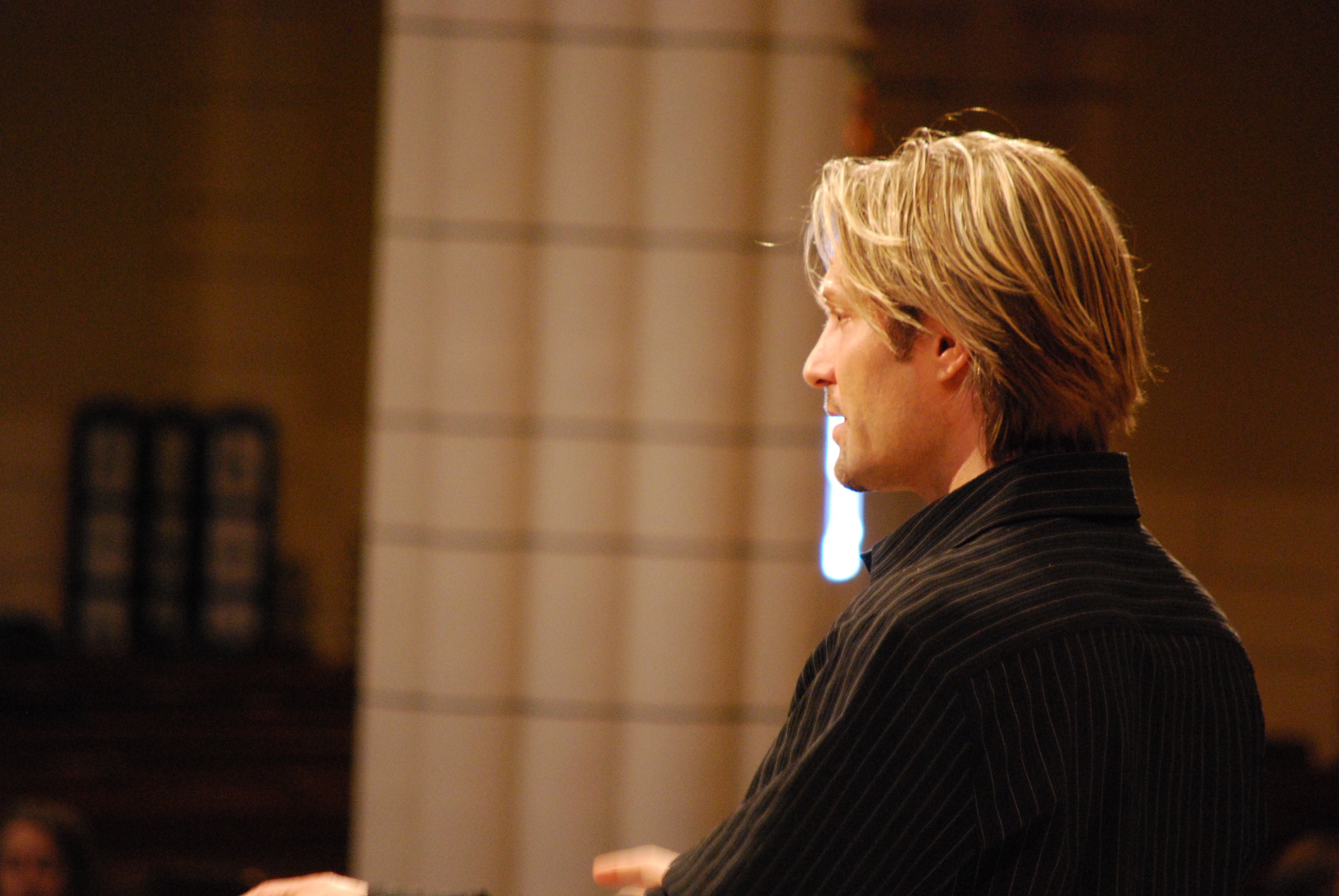 VocalEssence created an auditioned 160 voice Minnesota high school honors choir to perform as part of the "Eric Whitacre Extravaganza" on March 22, 2009.